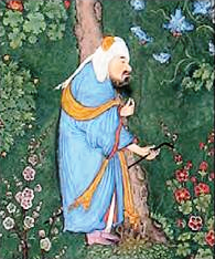 Painting of Iblis in The Shahnama of Shah Tahmasp